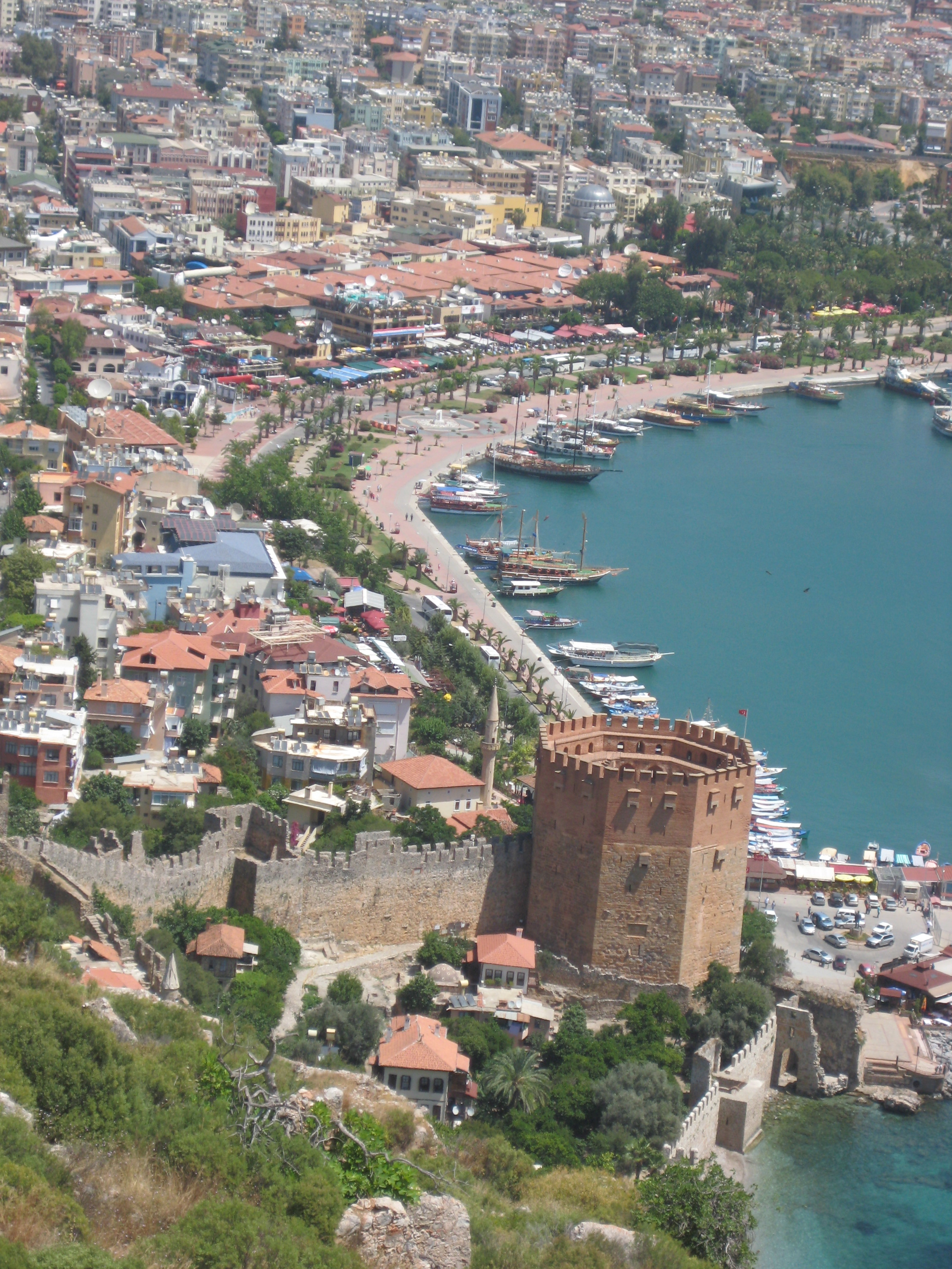 View of Alanya with Red Tower and Harbour